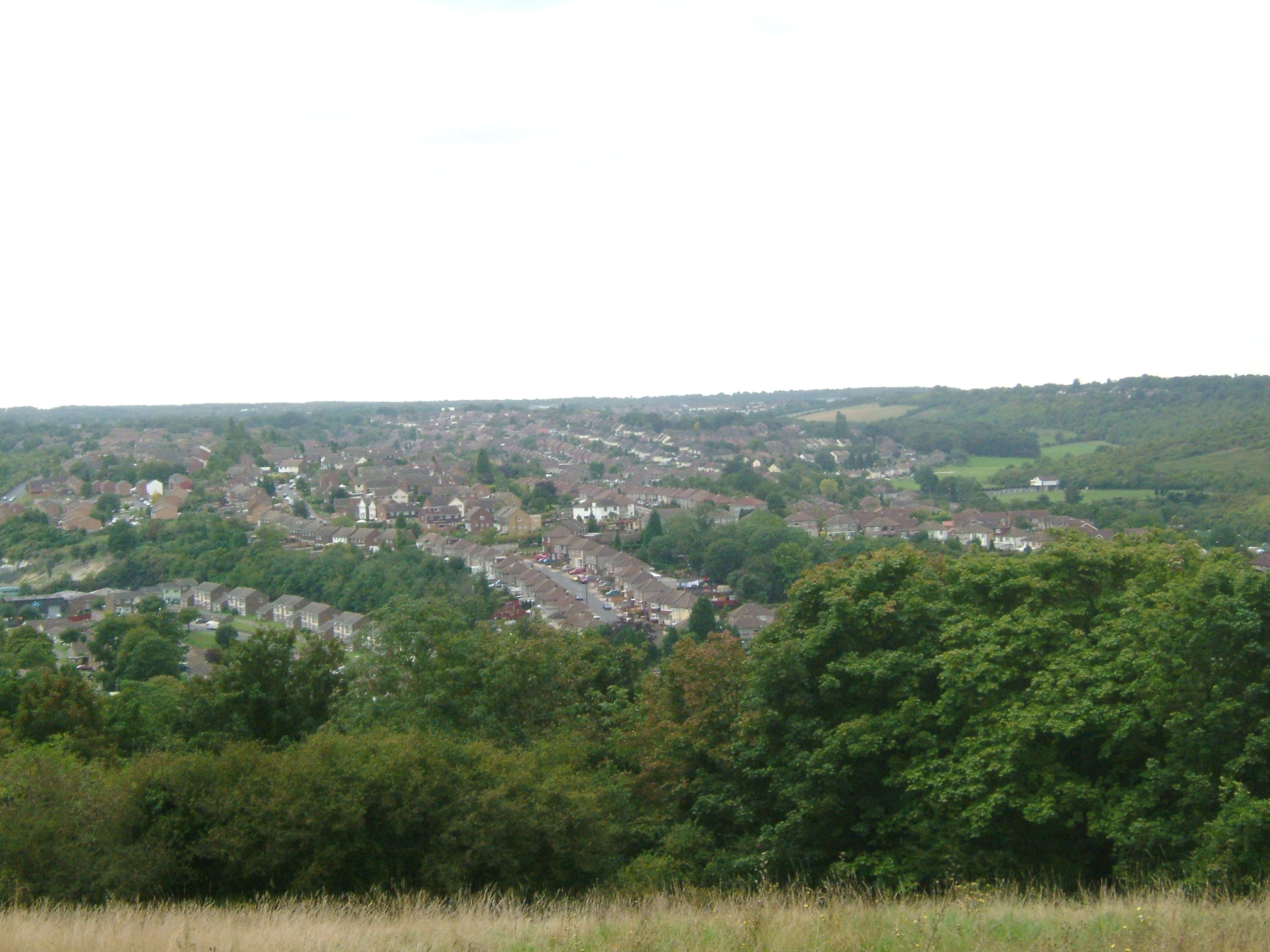 The Darland Banks are unimproved chalk grassland, in Chatham, Kent. Bordering on Gillingham they form the northern slopes of the Luton and Capstone Valleys This shot was taken from the top of Ash Tree Lane by Star Mill Lane. Star Mill or Upper Chatham Hill Mill was dismantled in 1924. We are looking over Luton Village. Rows of victorian terraced houses follow the contour lines. We can see all syles of 20th century housing. To the right are the fields of the Daisy Banks and Coney banks with Fort Luton in the trees.